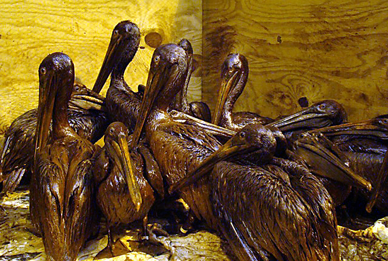 Heavily oiled Brown Pelicans captured at Grand Isle, Louisiana on Thursda, June 3, 2010 wait to be cleaned of Gulf spill crude at The Fort Jackson Wildlife Care Center in Buras, LA. Photo Credit: IBRRC